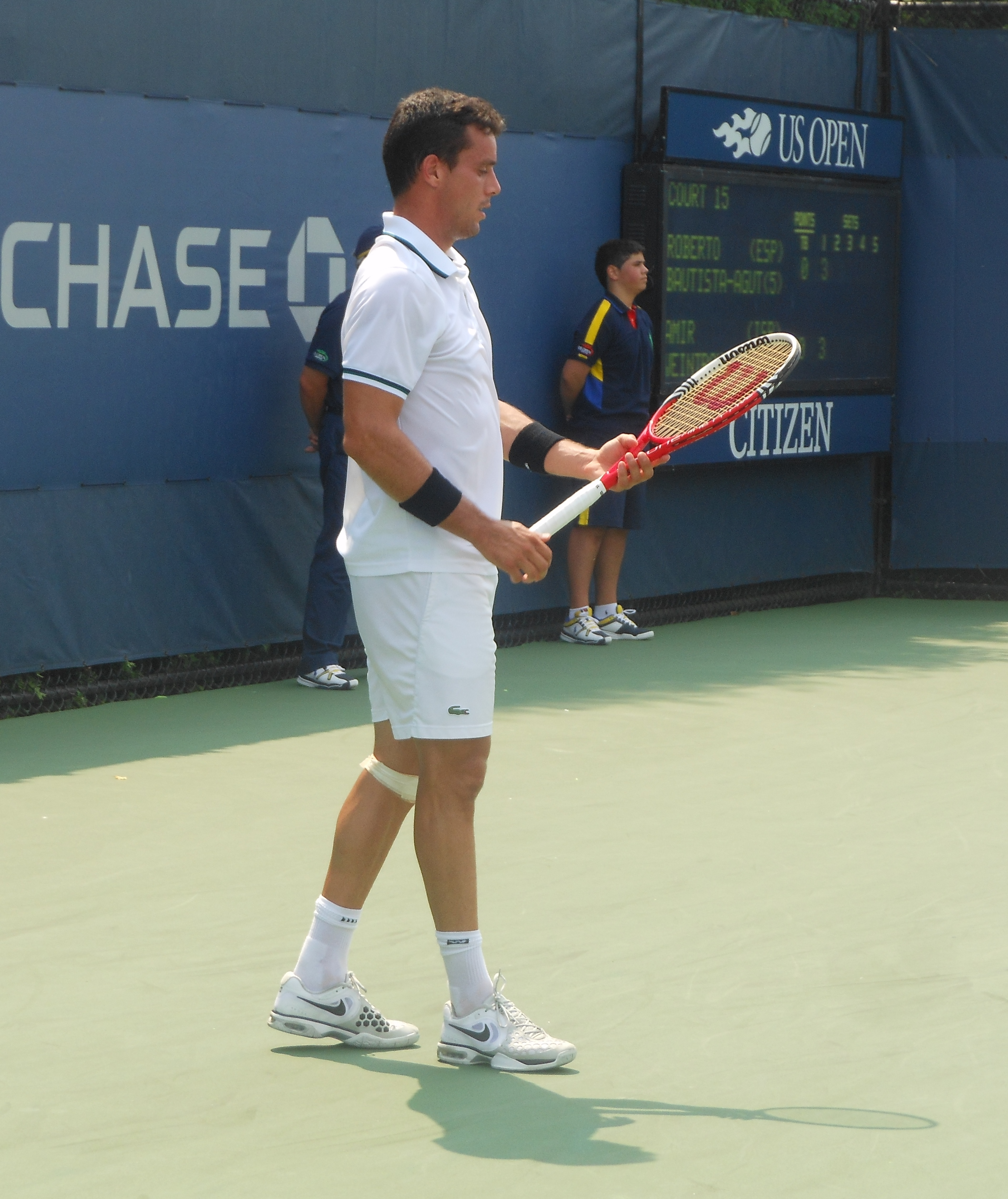 Roberto Bautista-Agust at 2012 US Open